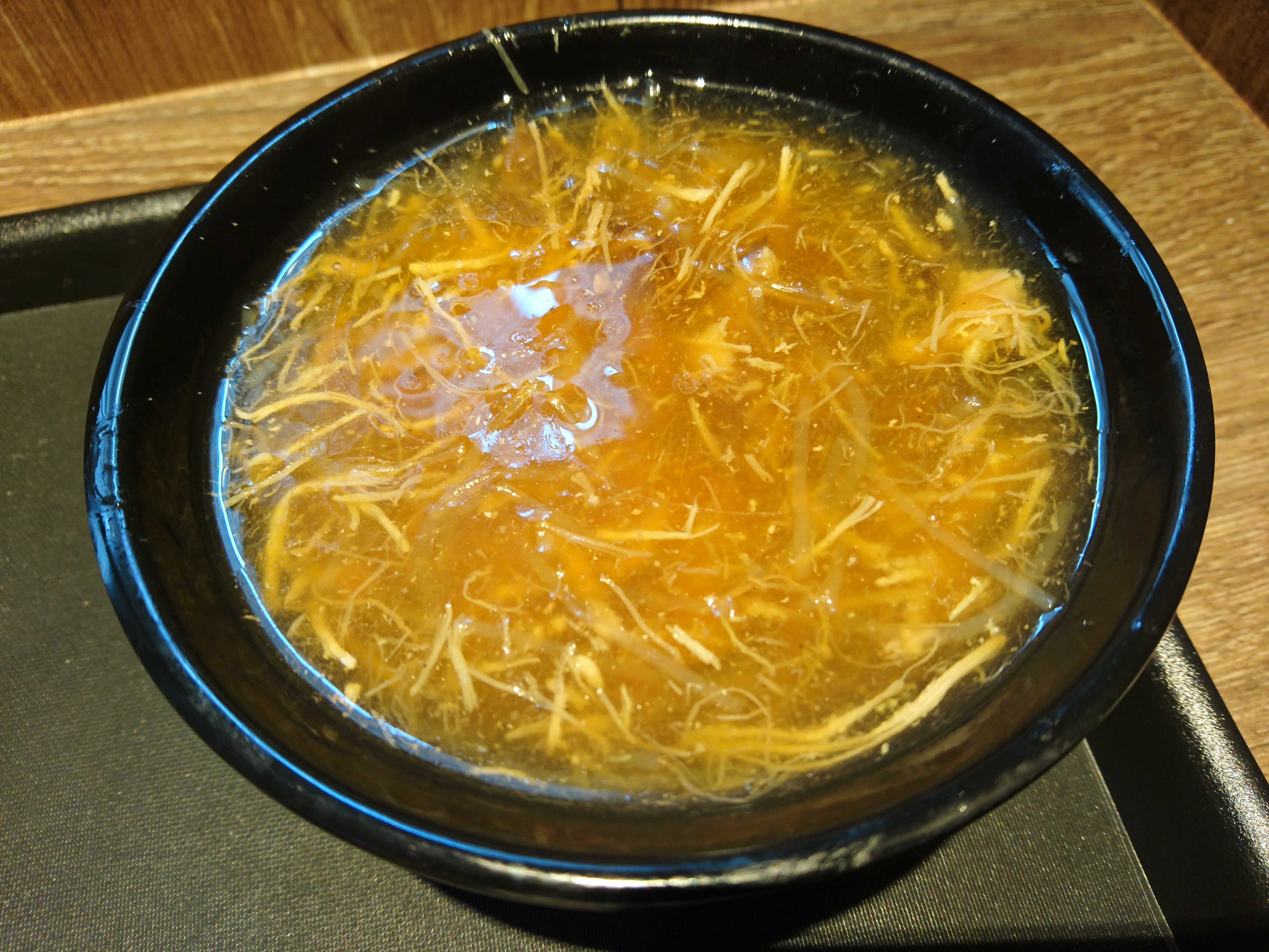 Imitation Shark Fin Soup